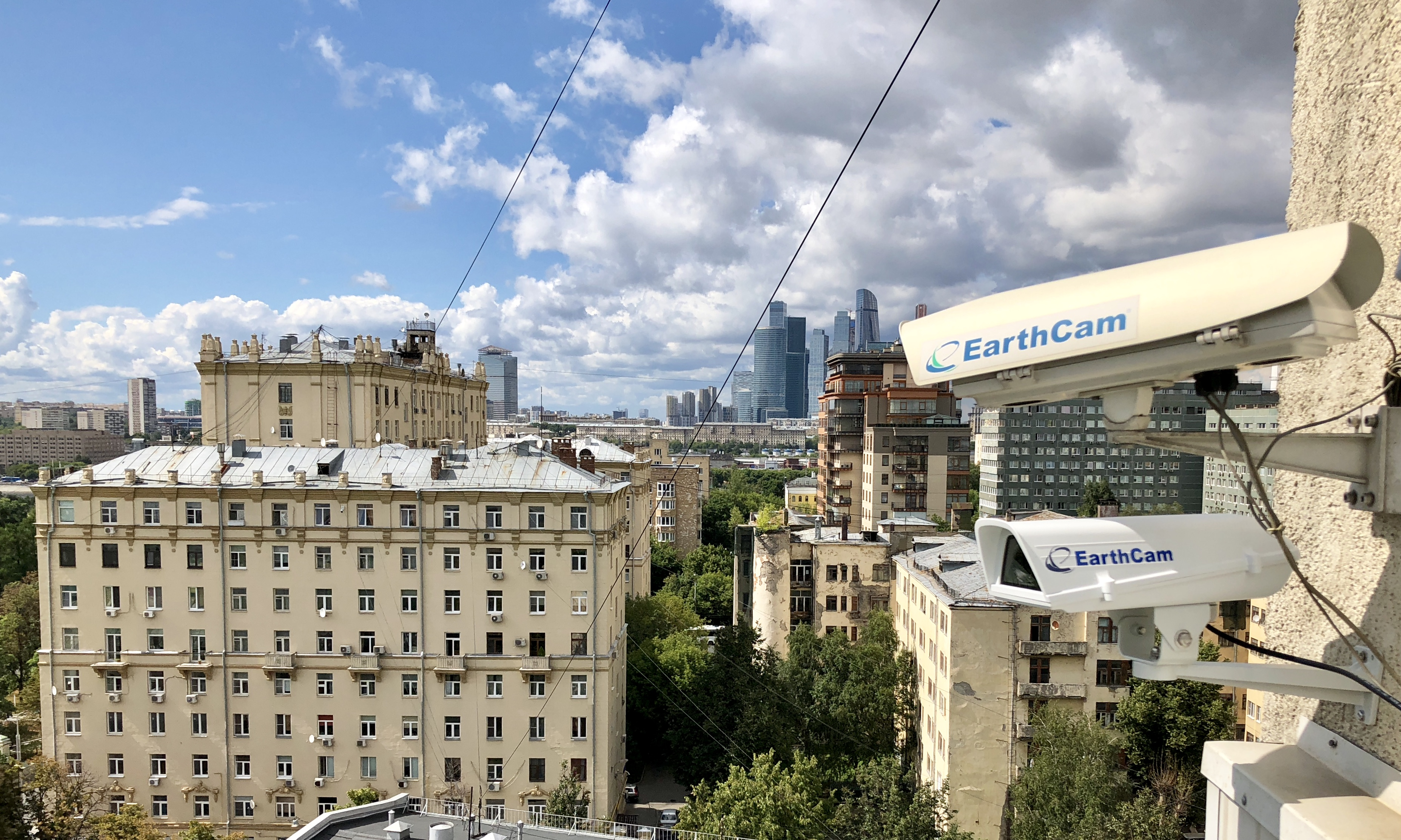 MoscowCam by EarthCam